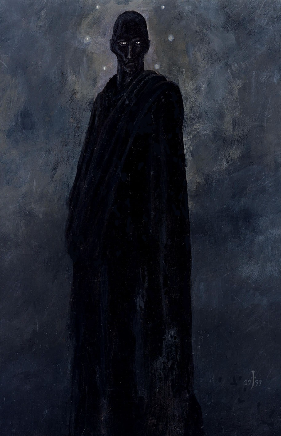 "The Black Man", an aspect of Nyarlathotep as described by H. P. Lovecraft in "The Dreams in the Witch House" (1932). Acrylics on cardboard 34×23 cm.